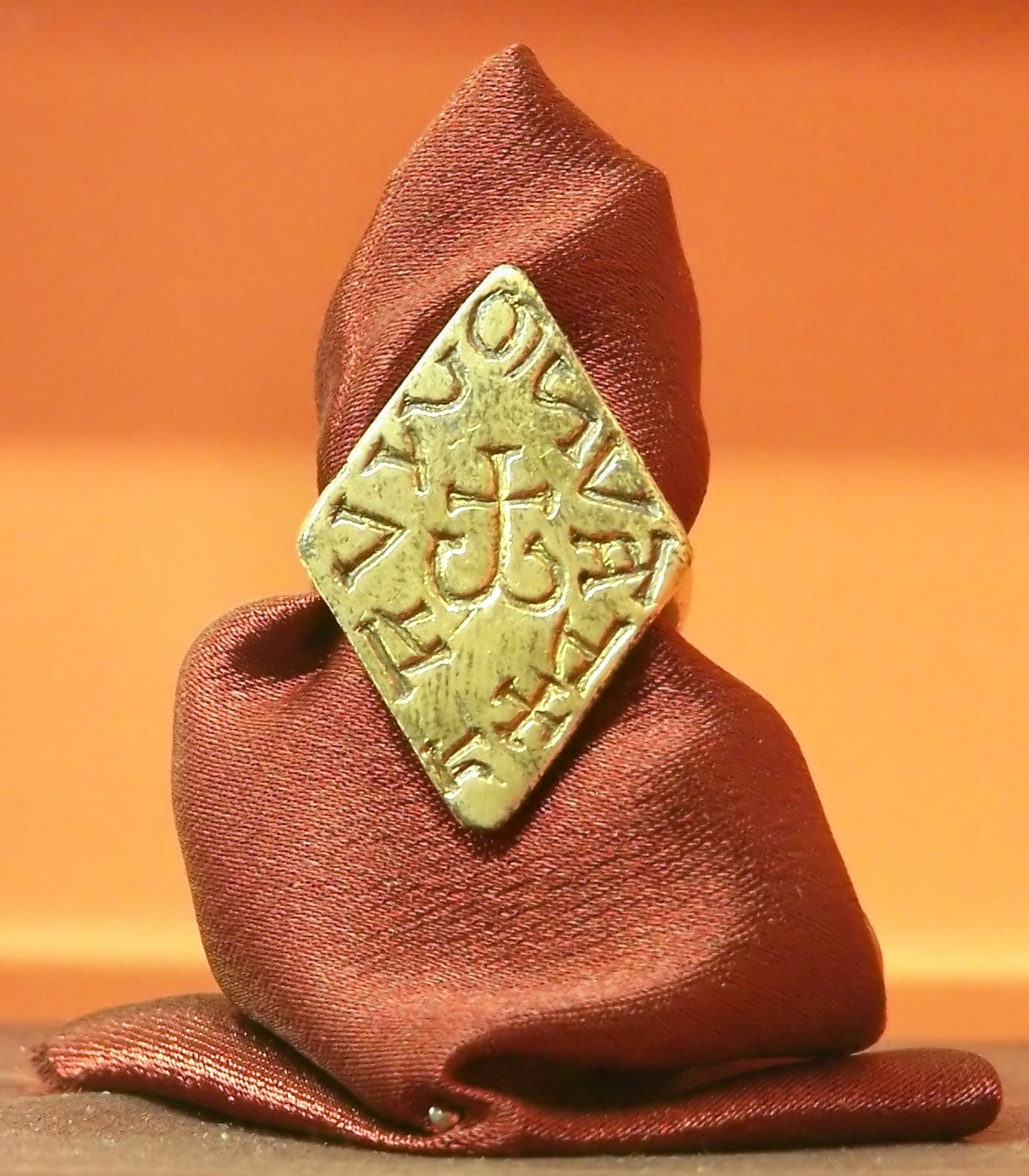 Signet ring of prince Świętopełk II with Church Slavonic inscription "LJAHUVUOJ SWJANTYCH PJALKUVO".